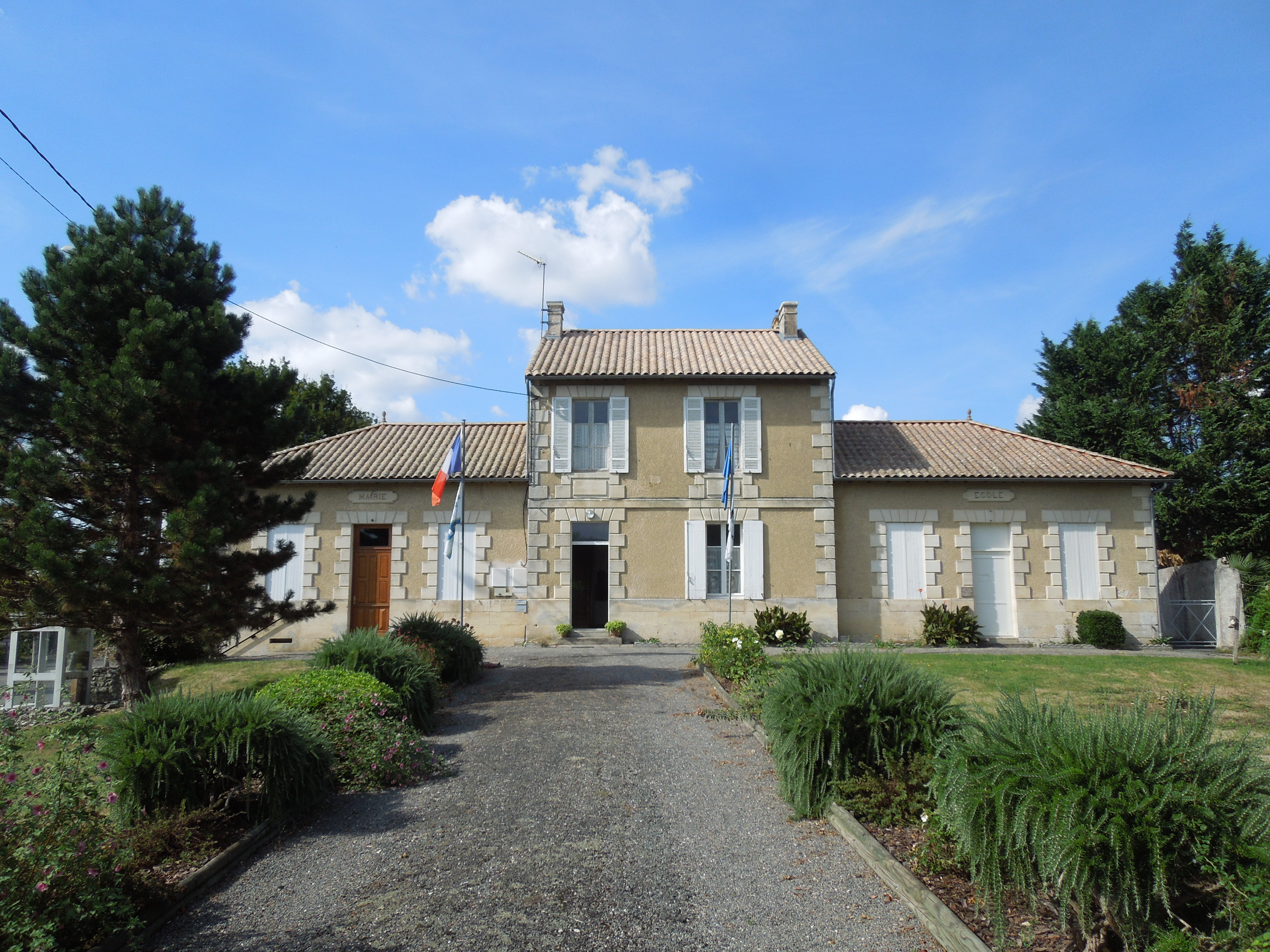 Salignac-de-Mirambeau, town hall and village school